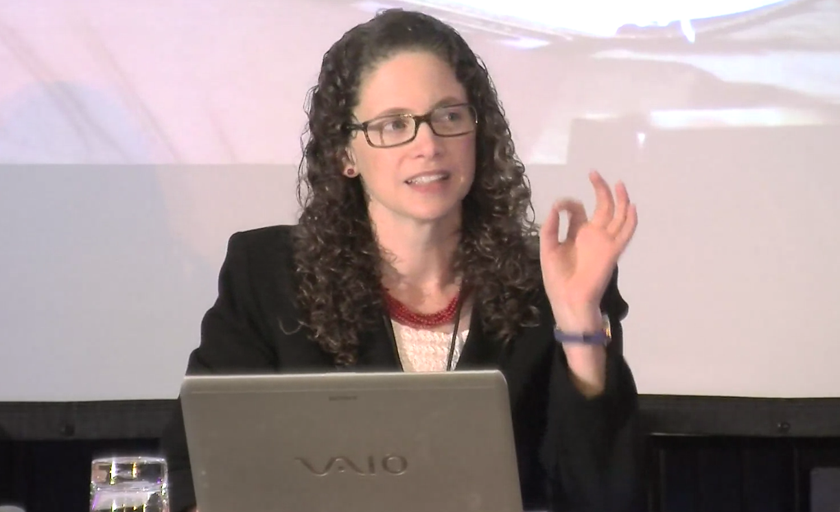 Karima Bennoune, author of "Your Fatwa does not Apply Here" gives a Tribute to those Fallen Fighting Religious-Right at the 11-12 October 2014 International Conference on the Religious-Right, Secularism and Civil Rights in London.